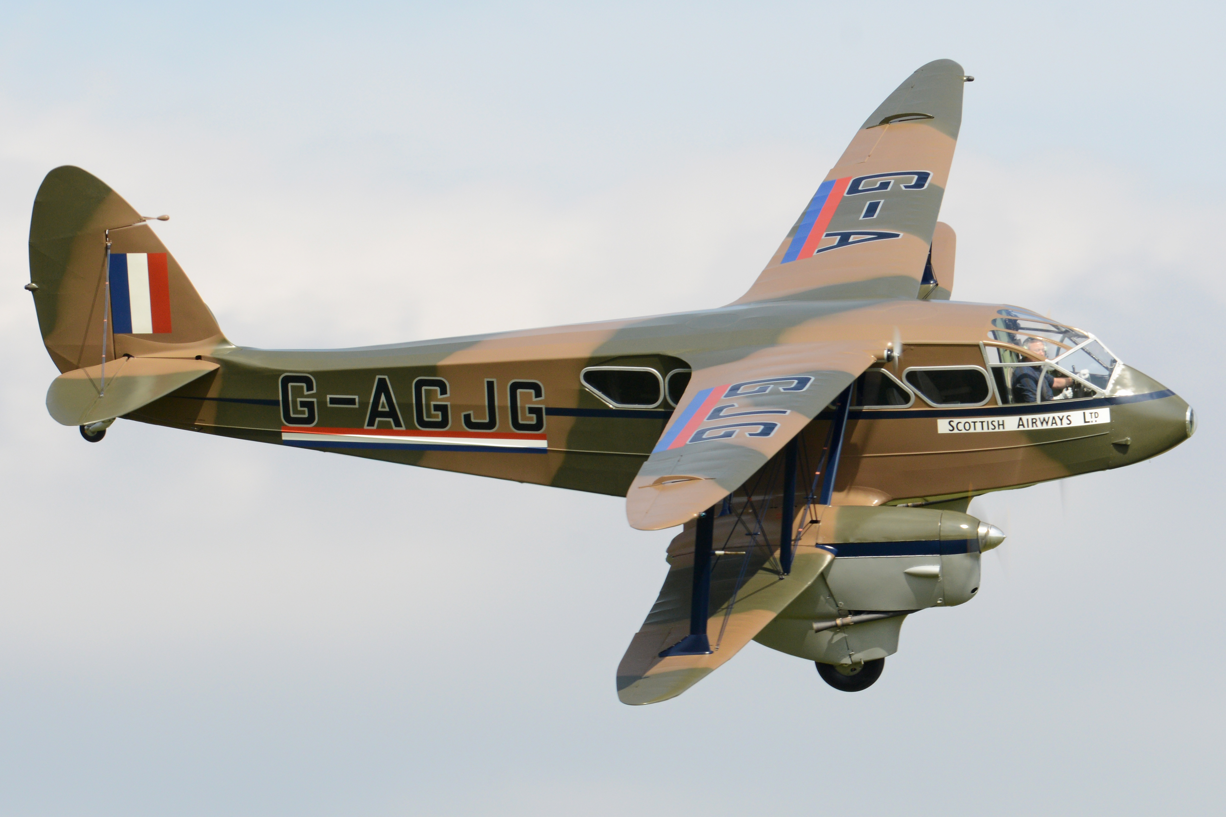 c/n 6517. British military serial X7344. Stunningly restored in full and original 'Scottish Airways Ltd' wartime colours. She is owned and operated by David & Mark Miller and is based at Duxford, which is where they restored her. Seen displaying at the Shuttleworth 2017 Season Premier Airshow, Old Warden. Bedfordshire, UK. 7th May 2017